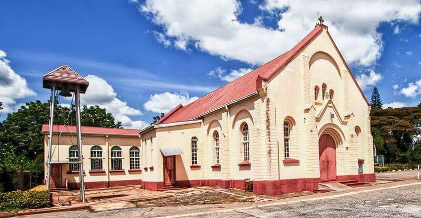 St Johns Avondale St Johns Emarald Hill